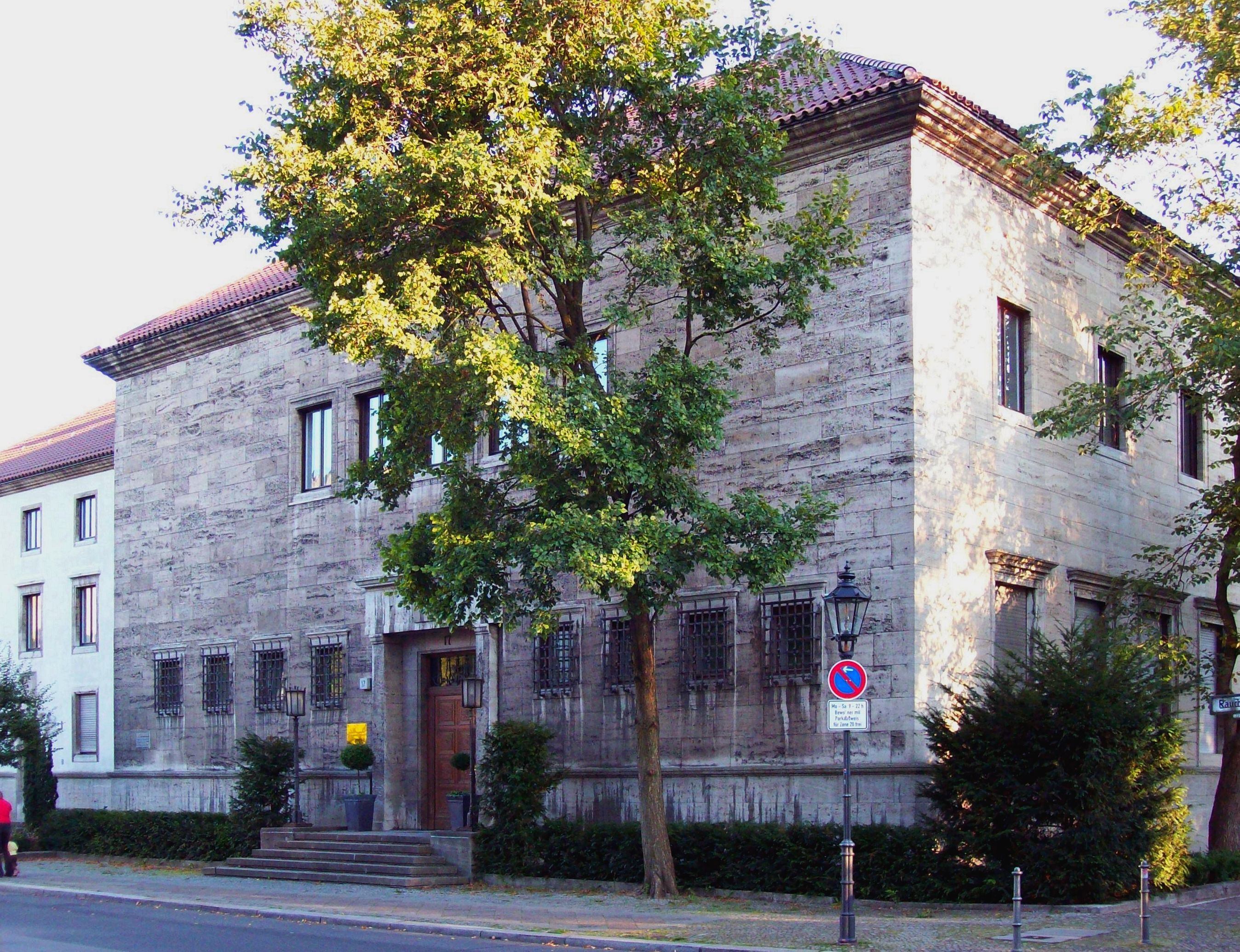 Diplomatic mission of Yugoslavia Berlin Corner Rauch-/Drakestr.